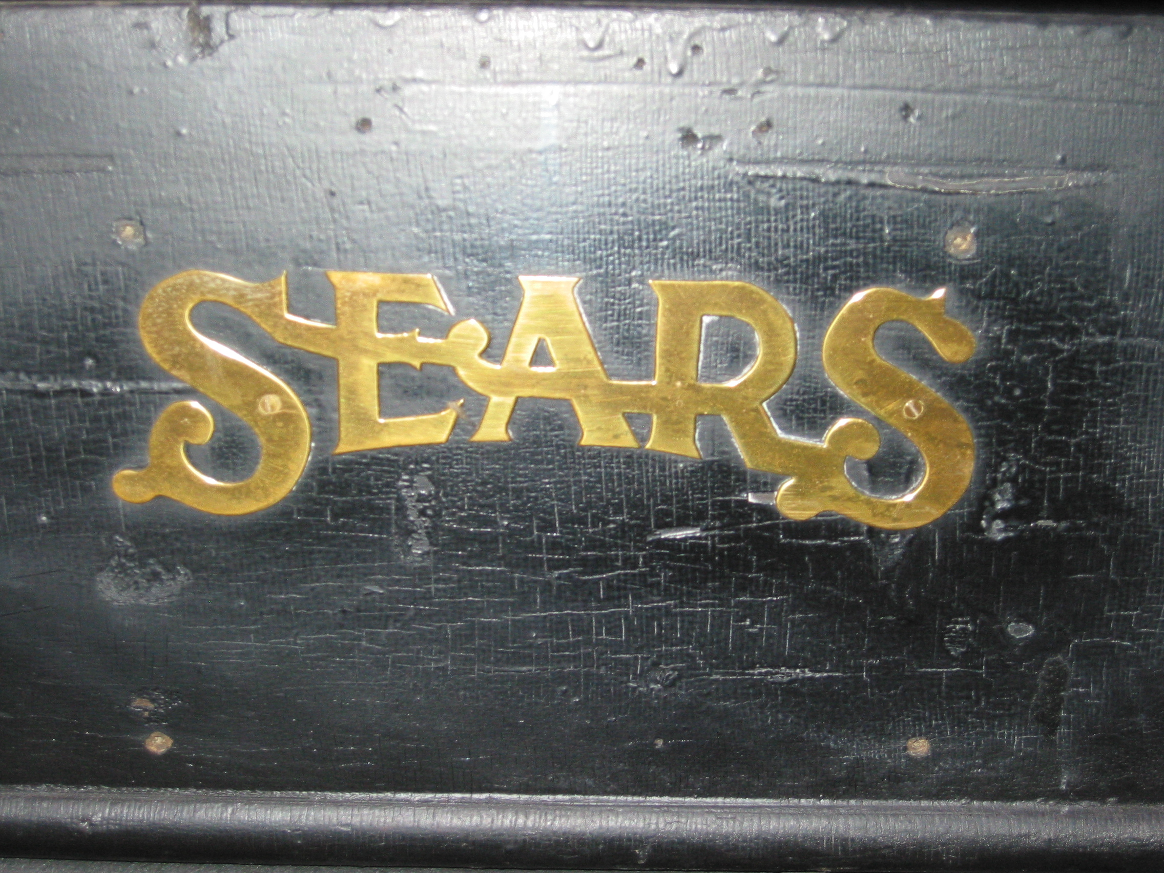 Emblem Sears